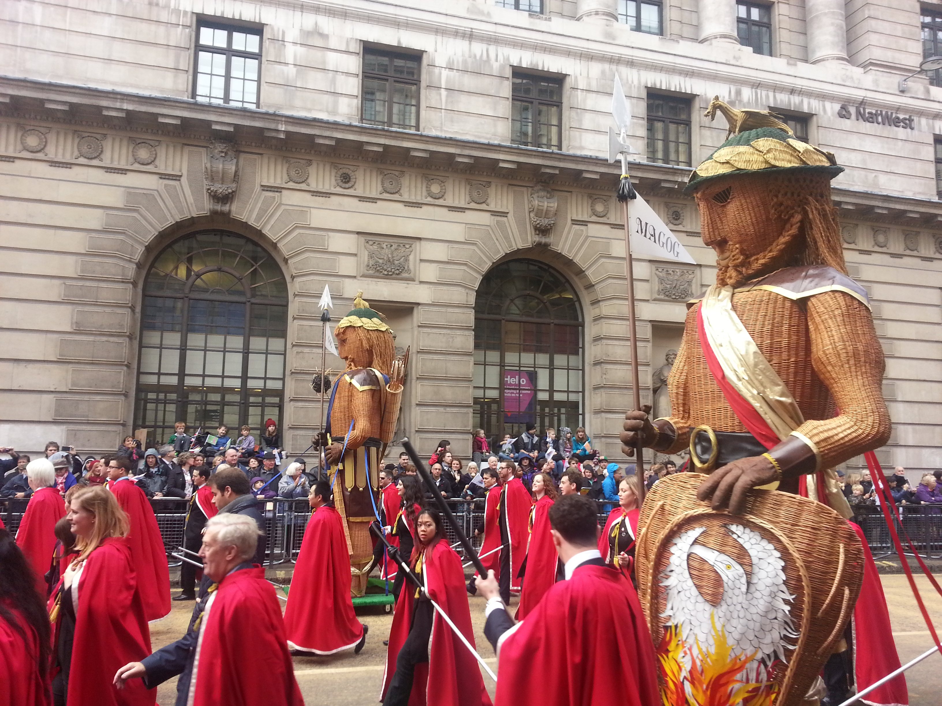 Lord Mayor's Show 2014